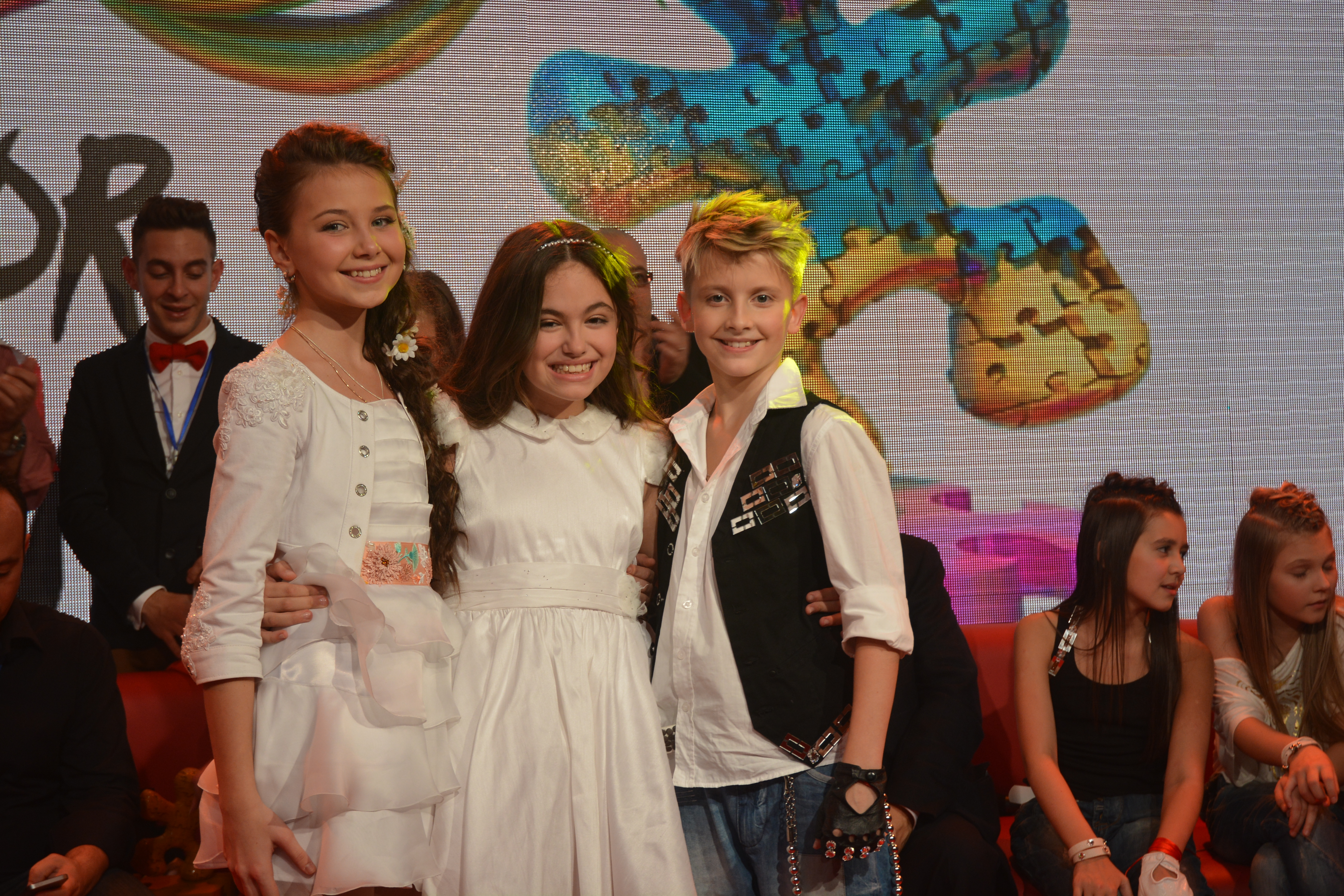 JESC 2013 winners - Ukraine, Malta, Belarus